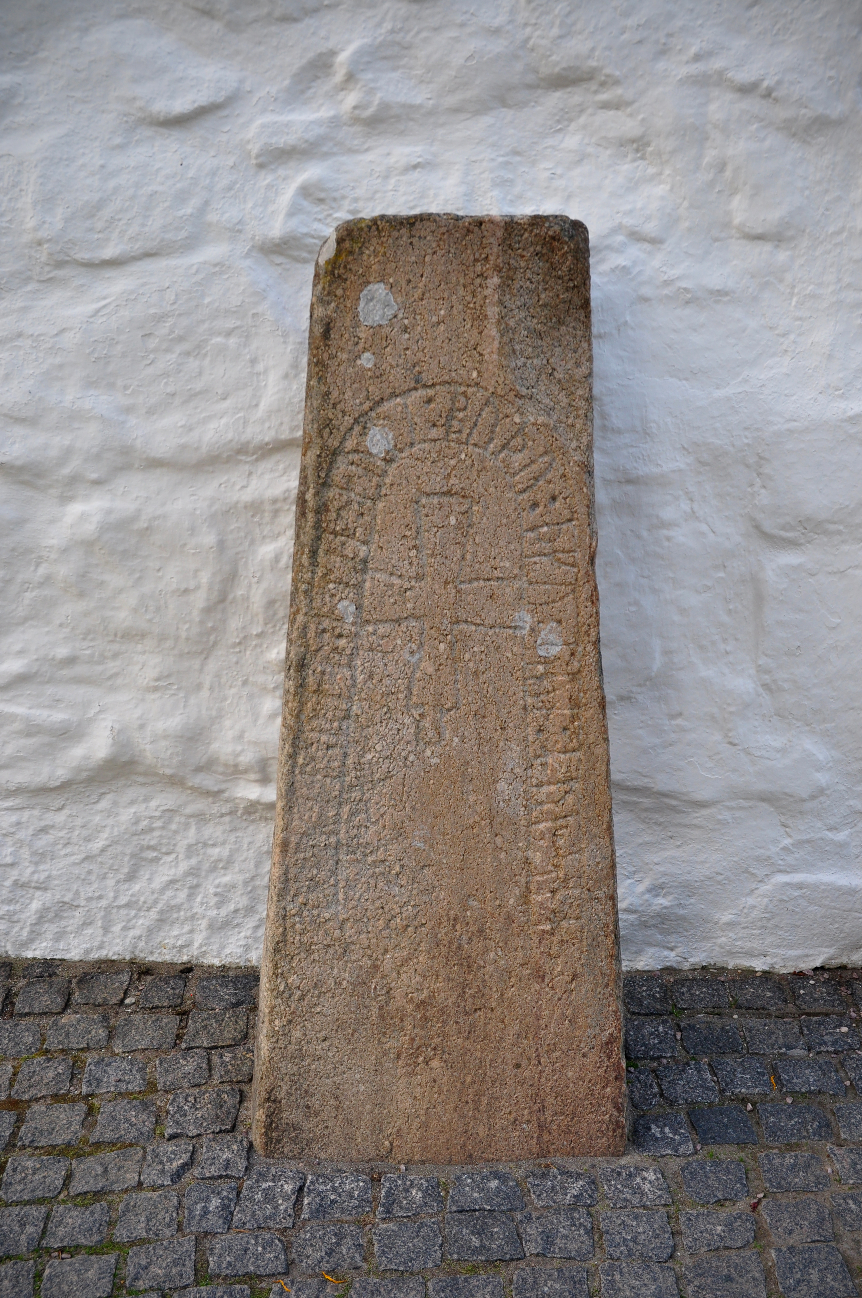 Runestone outside the medieval church Østerlars, Bornholm, Denmark.